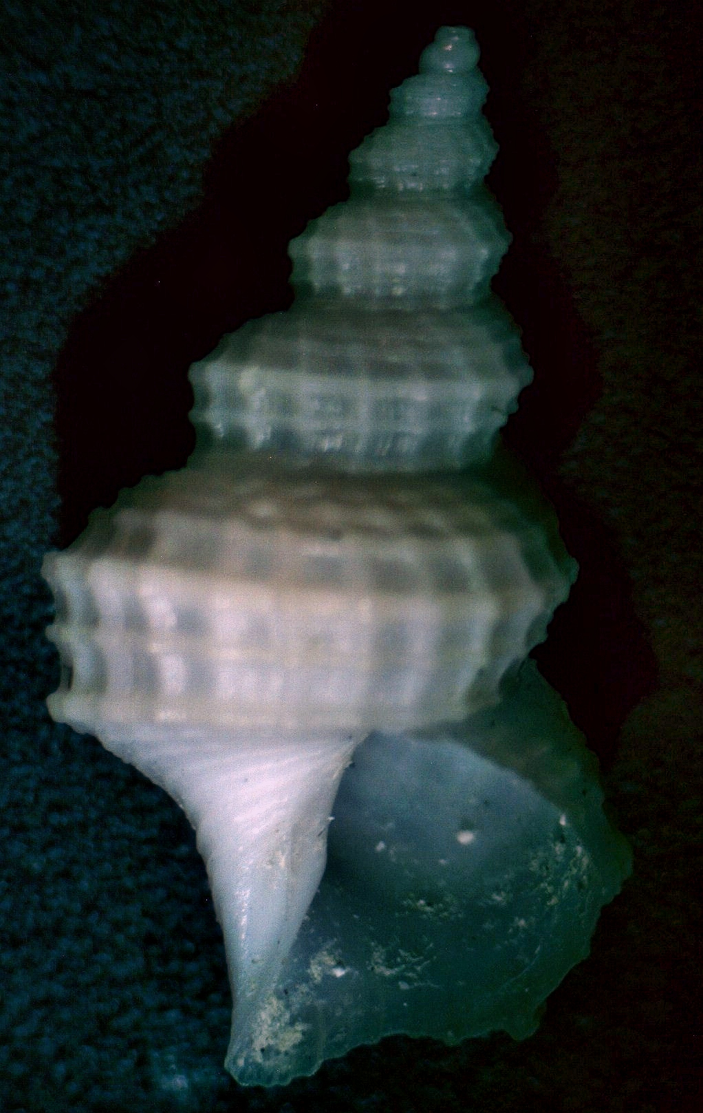 Trichotropis turrita Dall, 1927 , a cap snail in the family Capulidae; Philippines